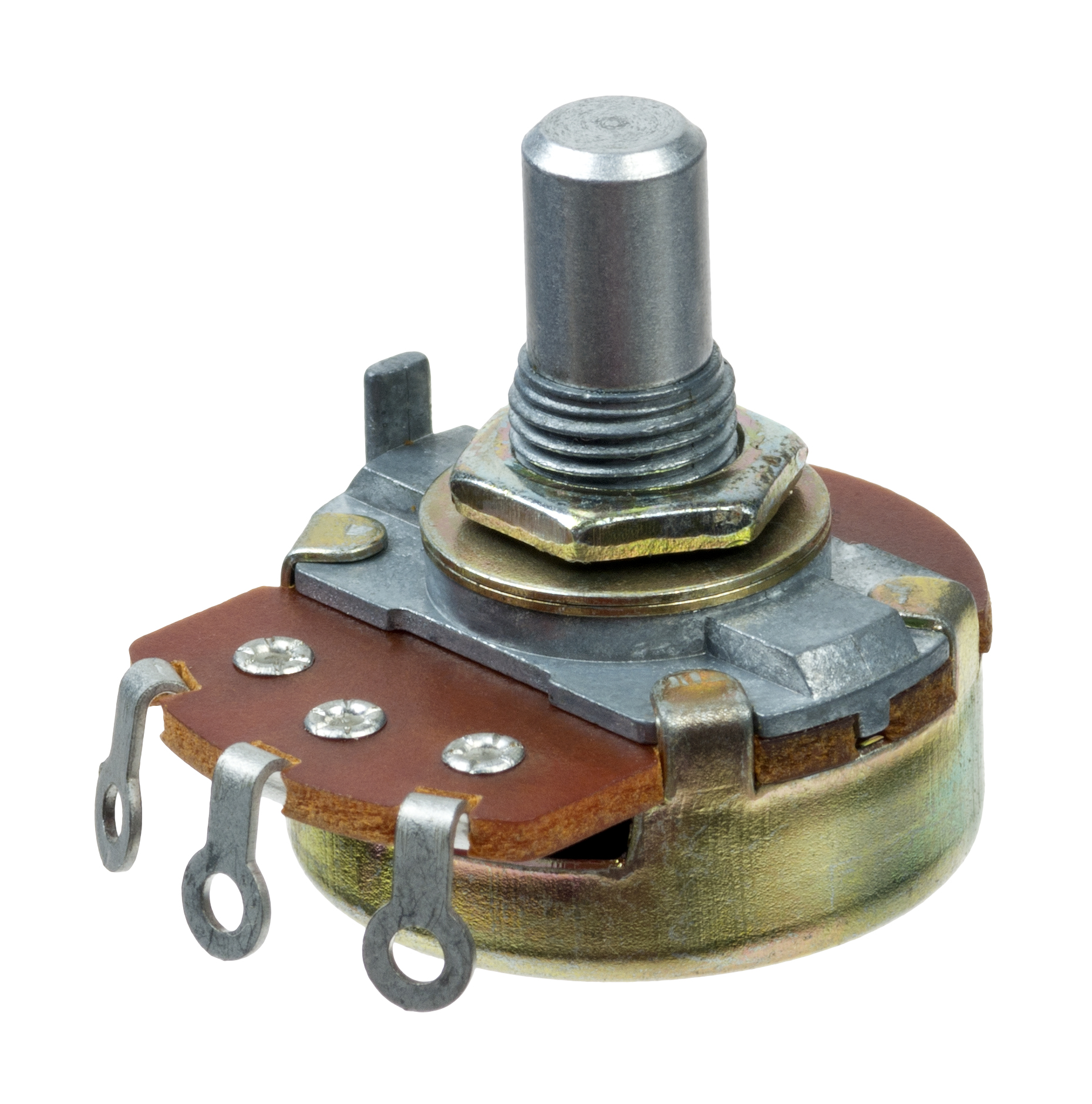 A potentiometer, a small component used for building electronics that provides an analog amount of resistance. A common application is used to control a volume dial on a stereo.